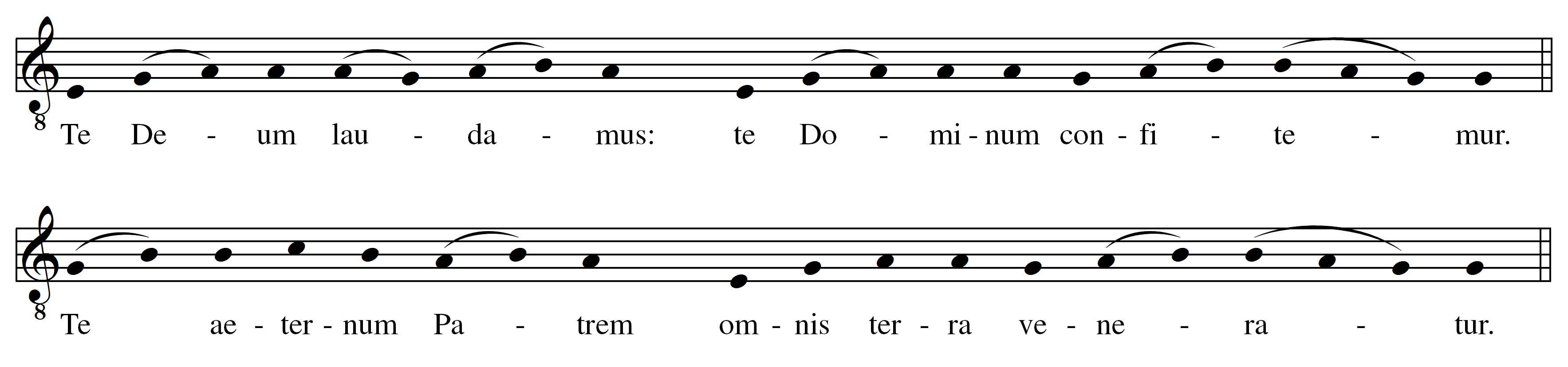 Catholic hymn Te Deum (transcription; fragment)